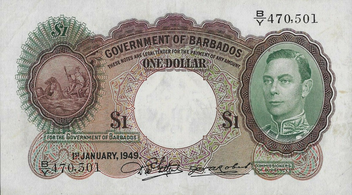 bankjegy778